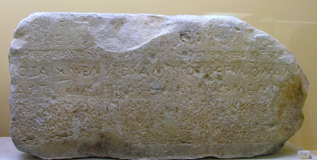 Fragment of a monument base with inscribed epigram set up by the Athenians in commemoration of victories over the Persians, 490-480 BC. Ancient Agora Museum (Athens).